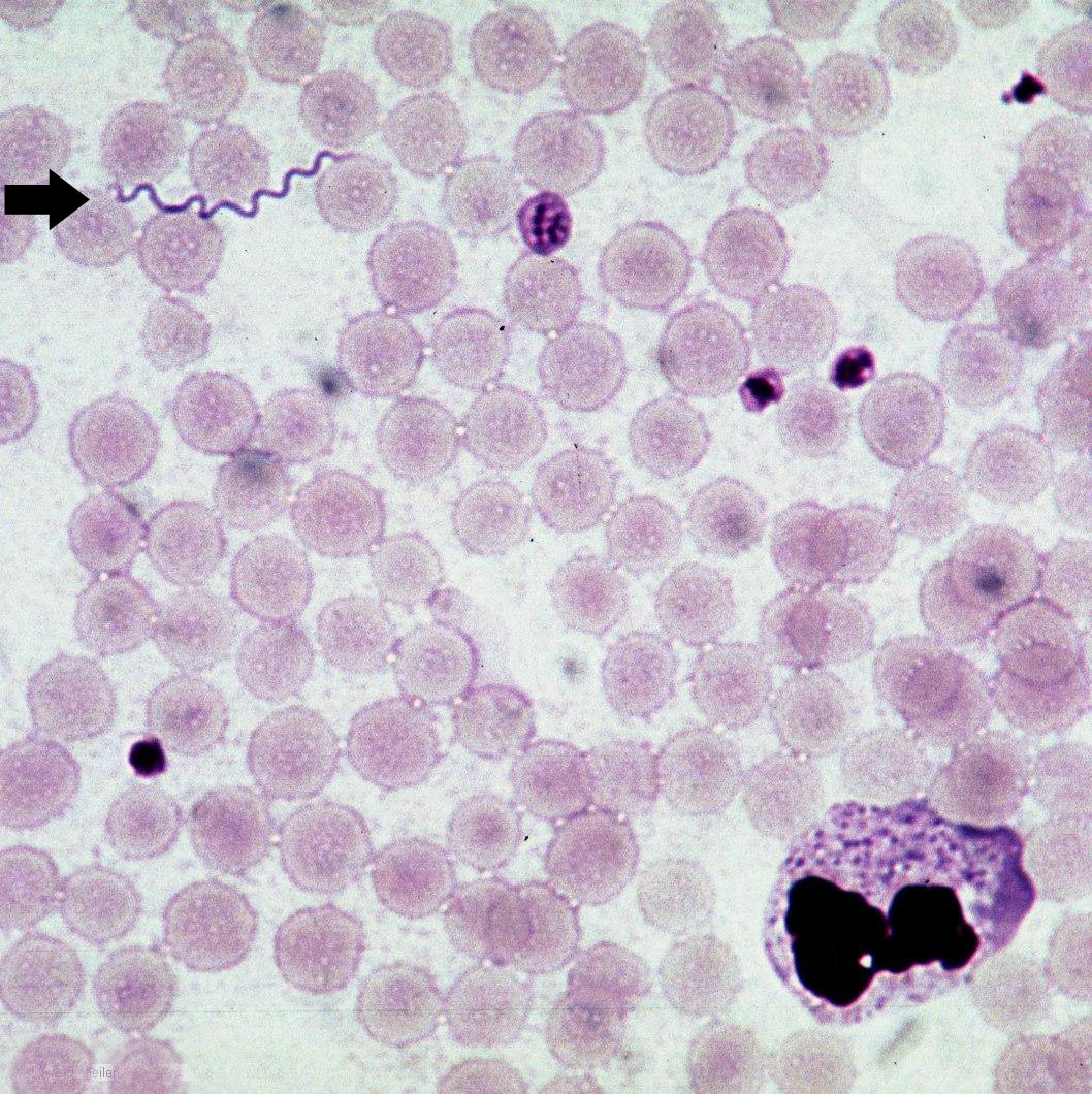 Borrelia theileri infecting the blood plasma of a cow. Giemsa stained.